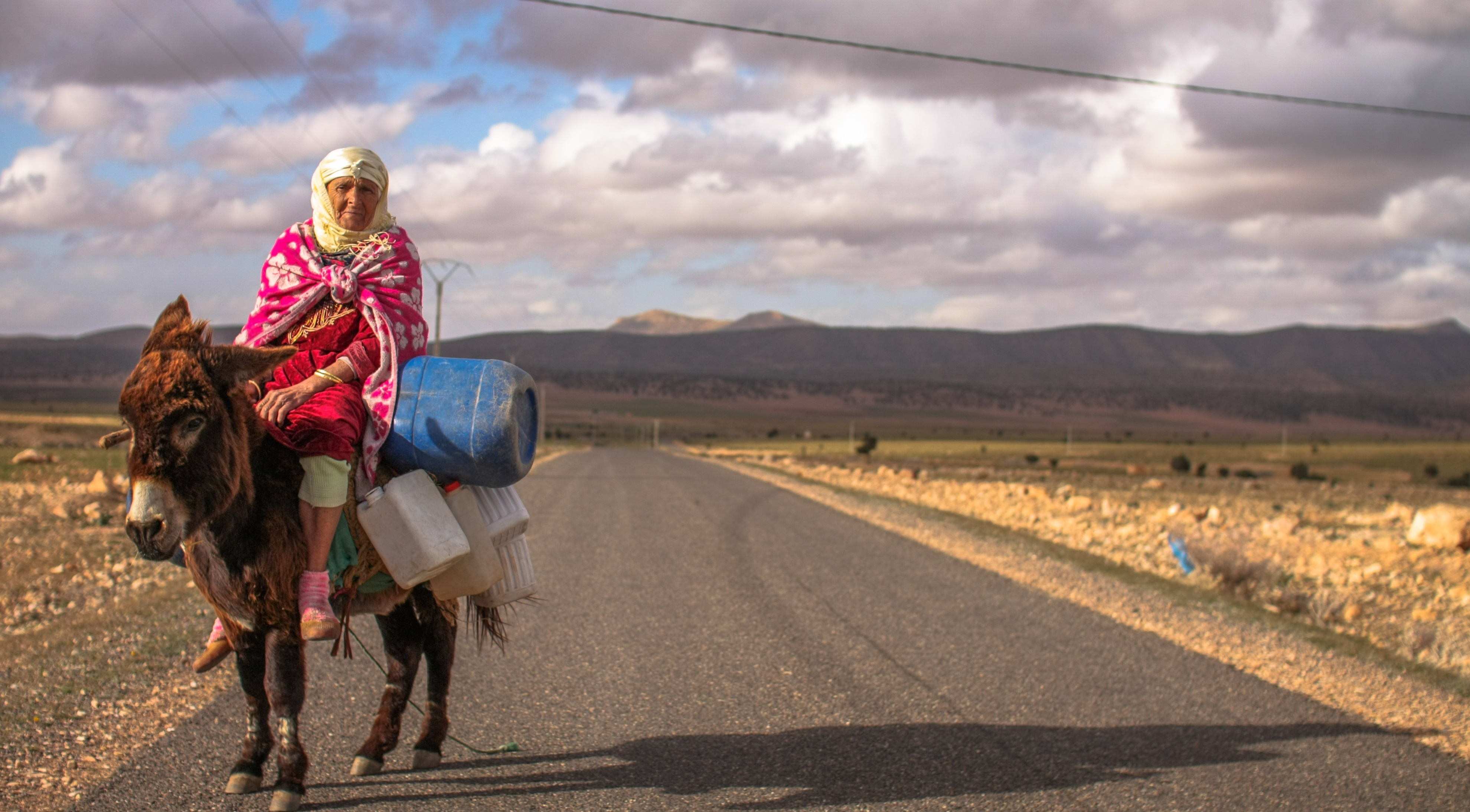 The Sacred Sacrifice - Guenfouda village - Jerada Province Morocco by Brahim FARAJI This is an image with the theme "Africa on the Move or Transport" from: Morocco